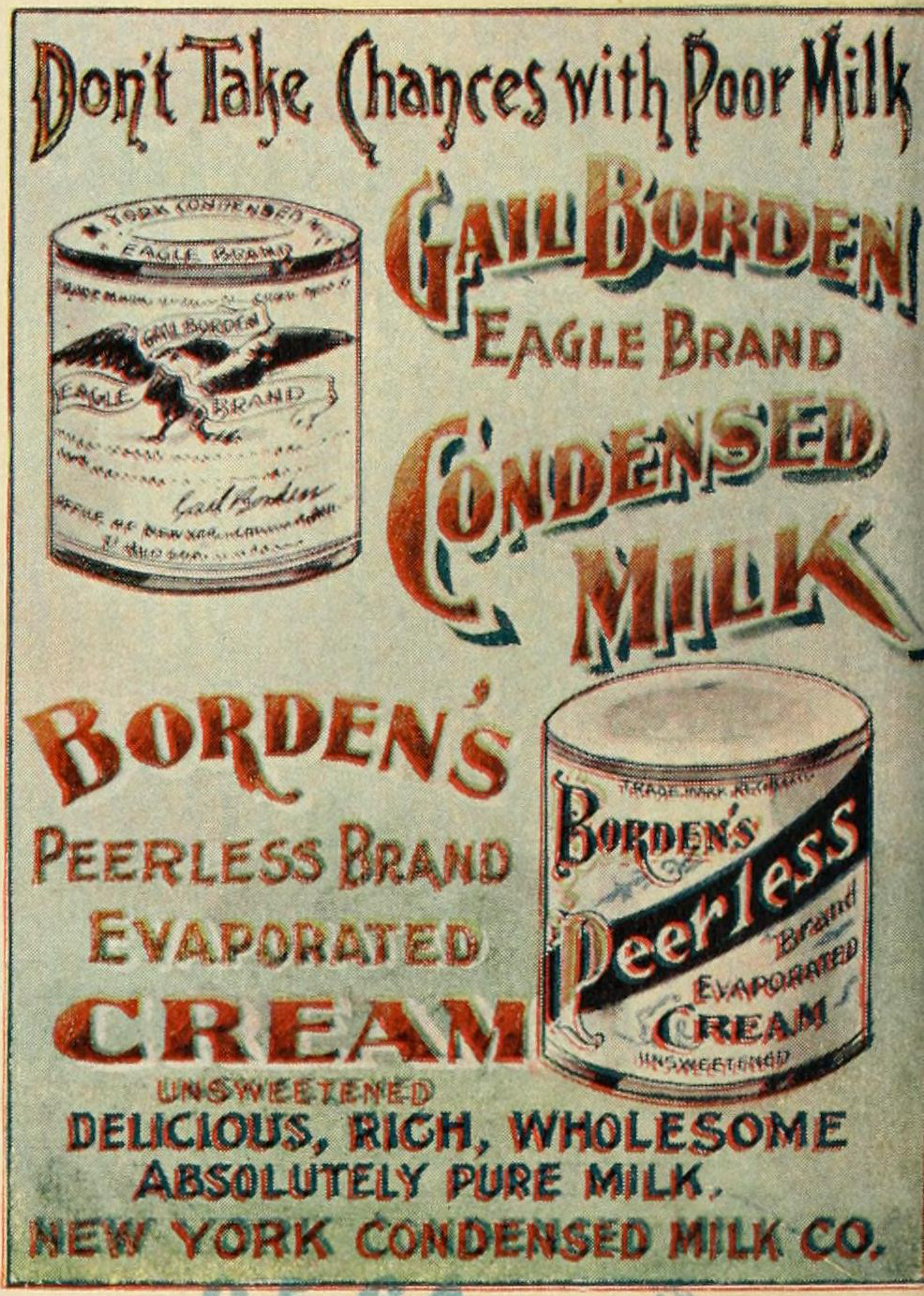 Advertisement for Borden's Eagle Brand Condensed Milk; from a guidebook published by the Alaska Commercial Company for people traveling to Alaska and the Yukon in the Klondike Gold Rush. (cropped; a printing defect in the original booklet resulted in the blurred appearance)